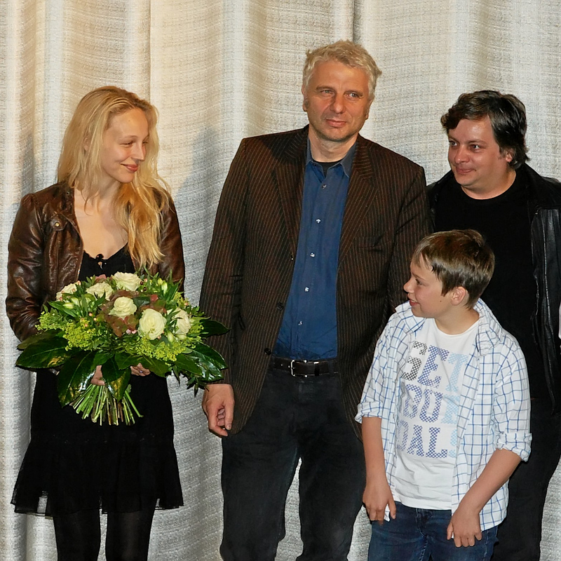 German actors Petra Schmidt-Schaller, Udo Wachtveitl, Andreas Warmbrunn and Rüdiger Klink presenting their TV Movie Das geteilte Glück at Munich Film Festival 2010.